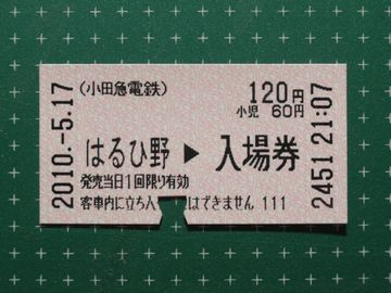 Platform ticket Haruhino Sta.